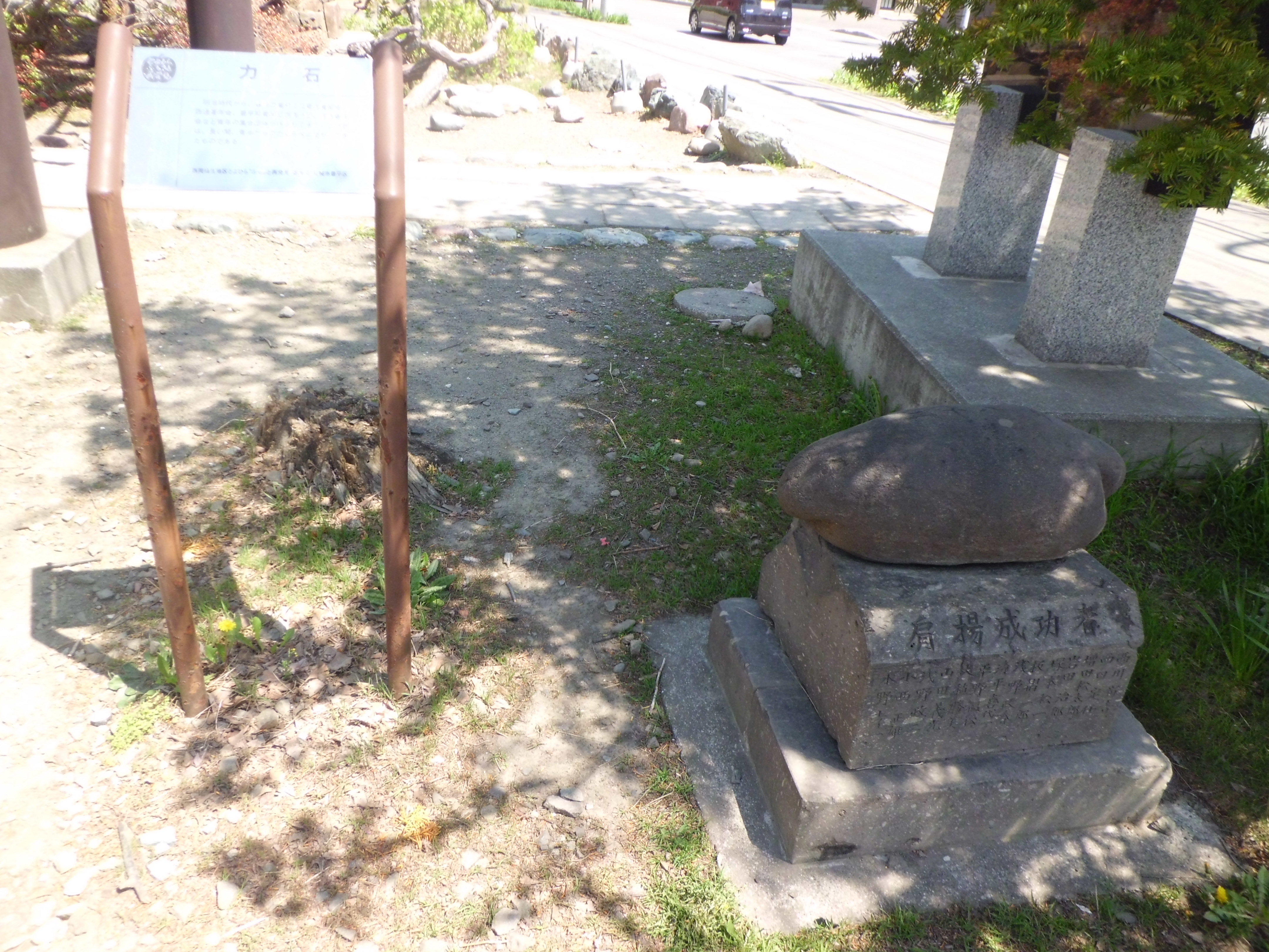 Stone of Might at Fukuzumi Itsukushima Shrine